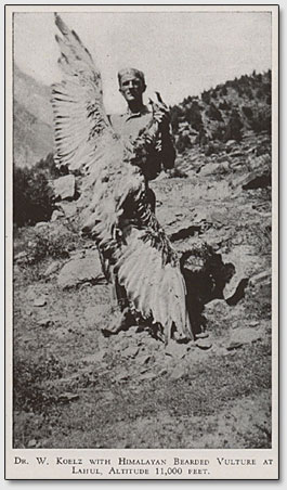 Walter Norman Koelz with a Lammergeier